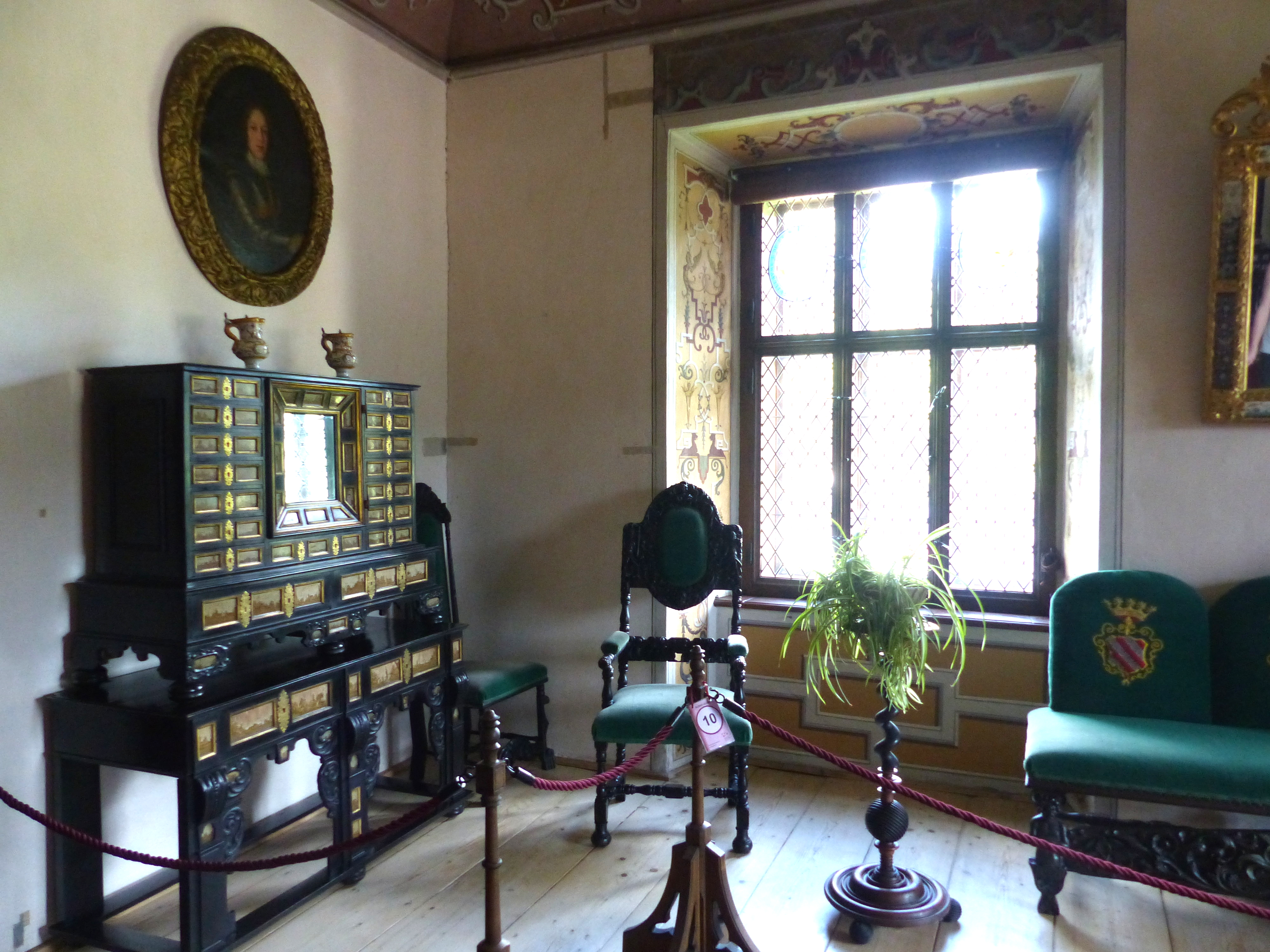 Rožmberk ( Czech Republic ). Lower castle - Karl-Albert-room.